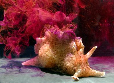 Aplysia californica emitting ink cloud